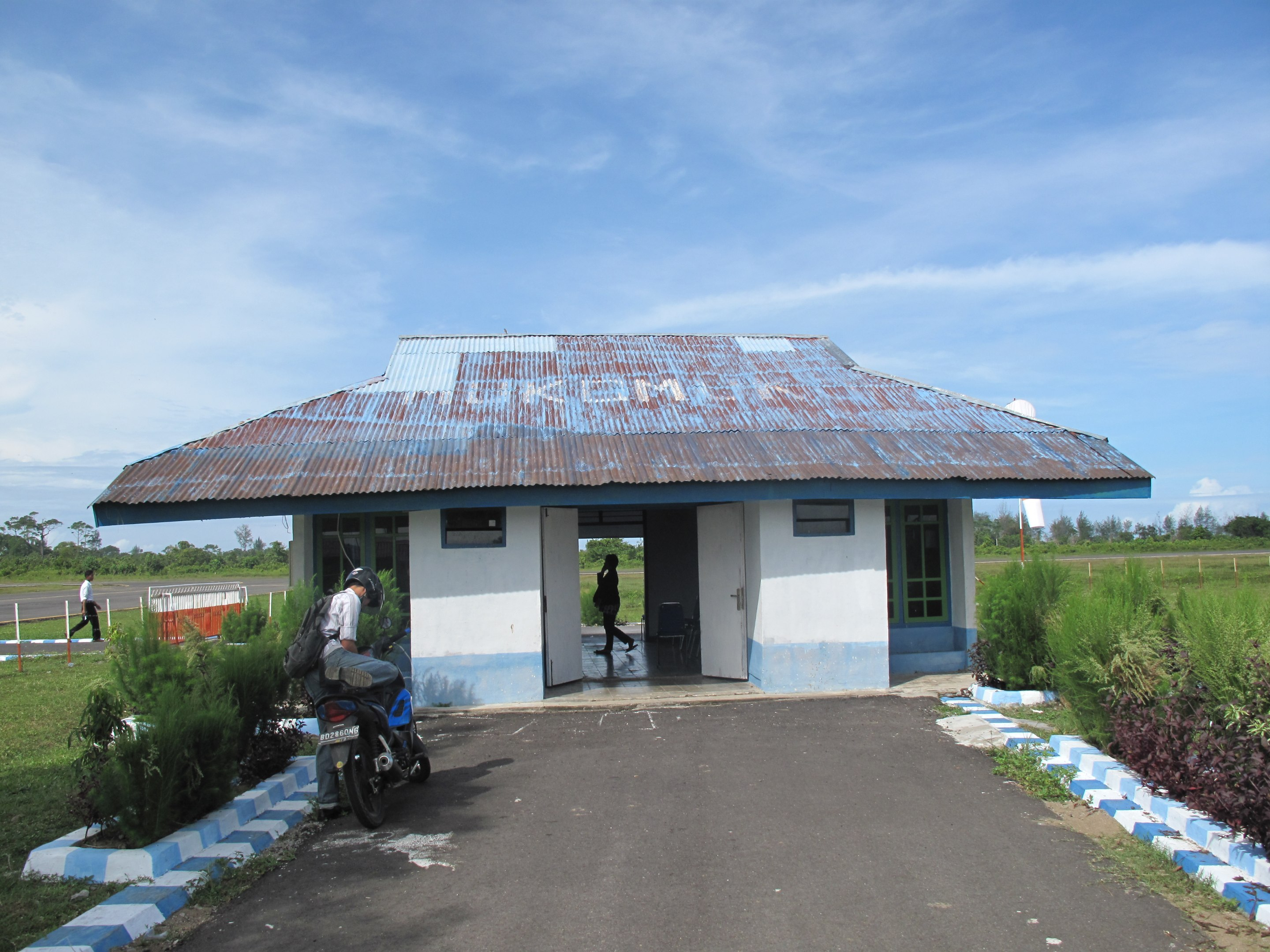 Terminal building, Mukomuko Airport